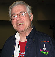 Depicted person: David G. Hartwell – American writer and editor